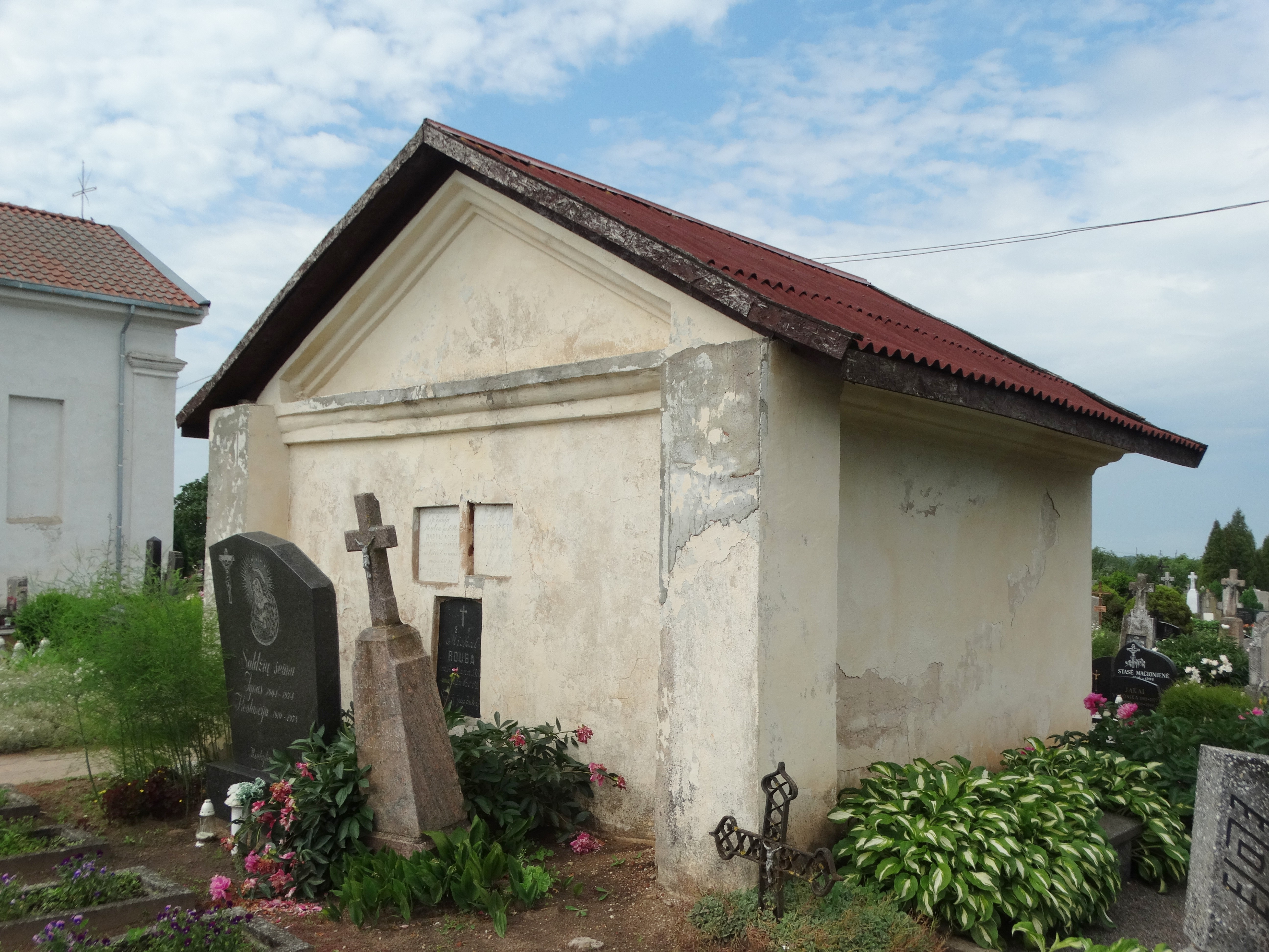 Šėta, cemetery tomb chapel, Kėdainiai district, Lithuania